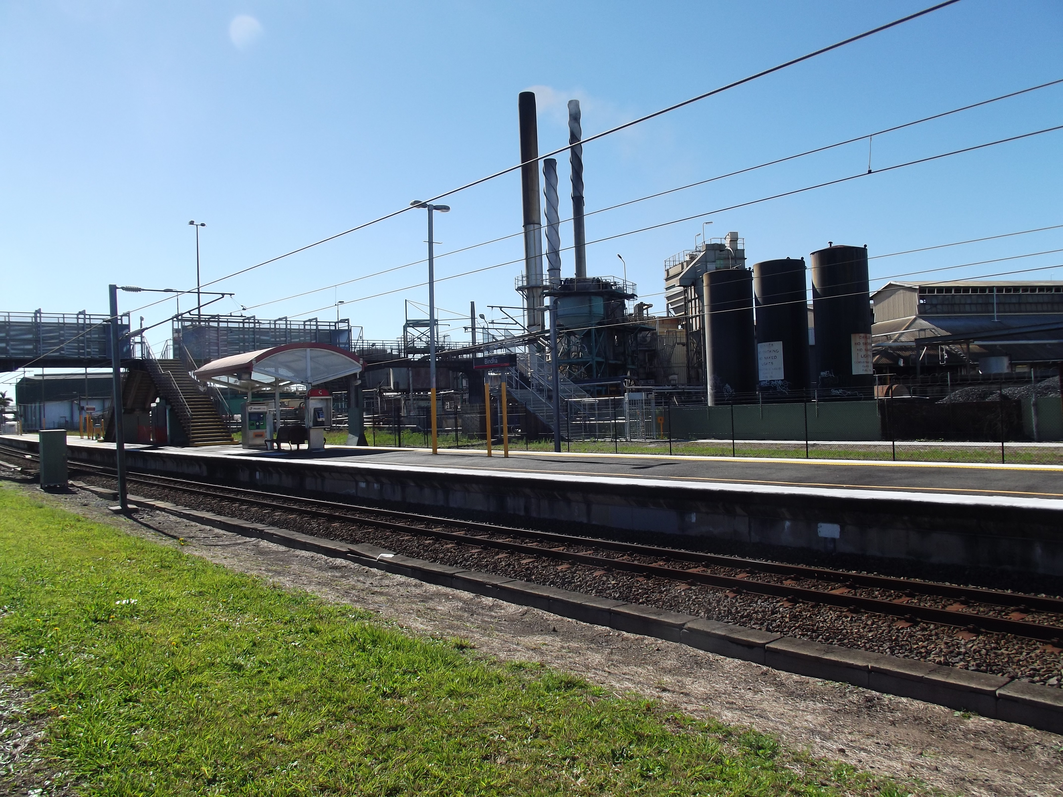 A photo of the Bindha railway station, operated by TransLink, located in Brisbane, Queensland.